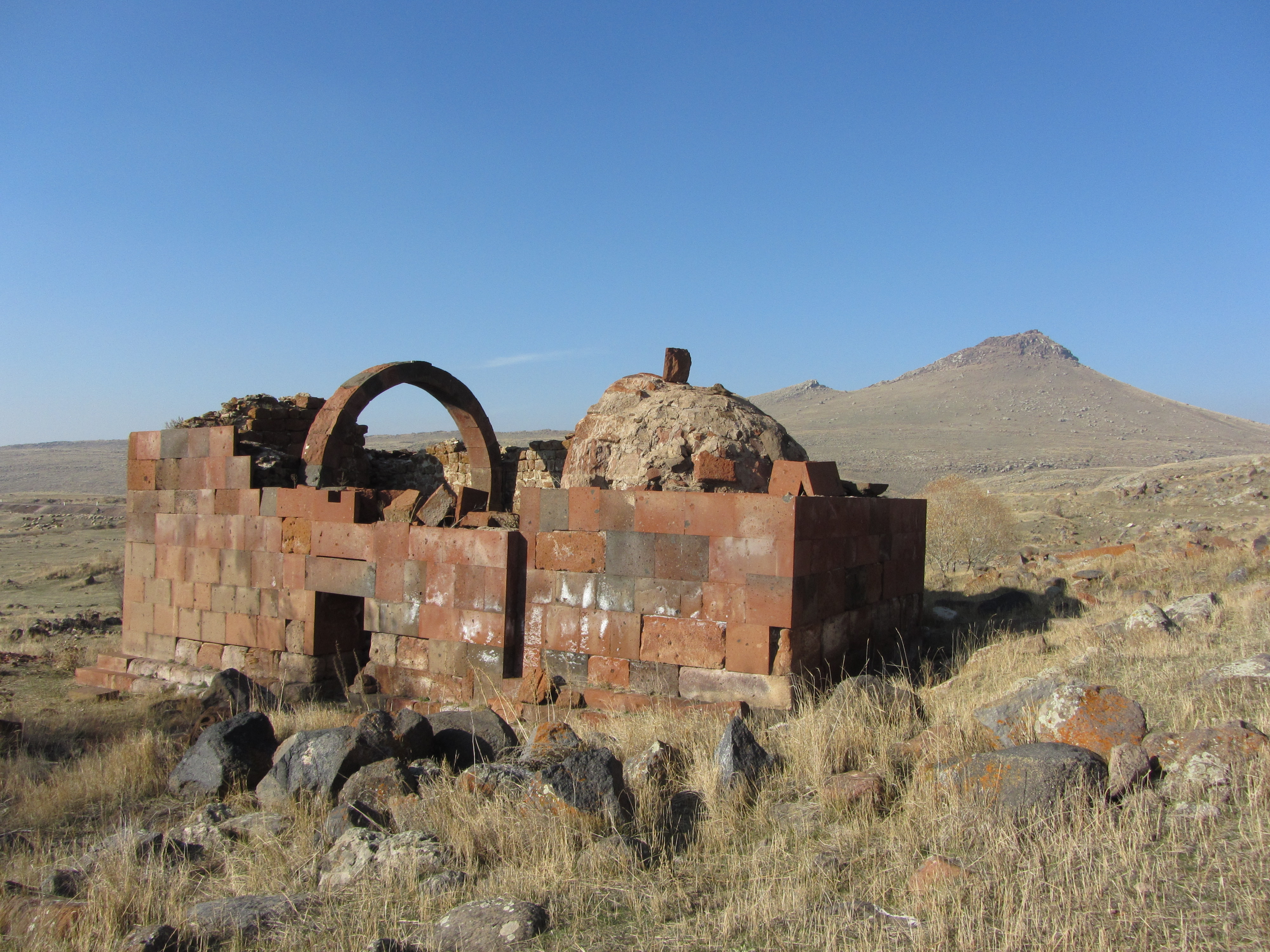 Mastara, Settlement Shenik, Surb Amenaprkich Church, 5c.